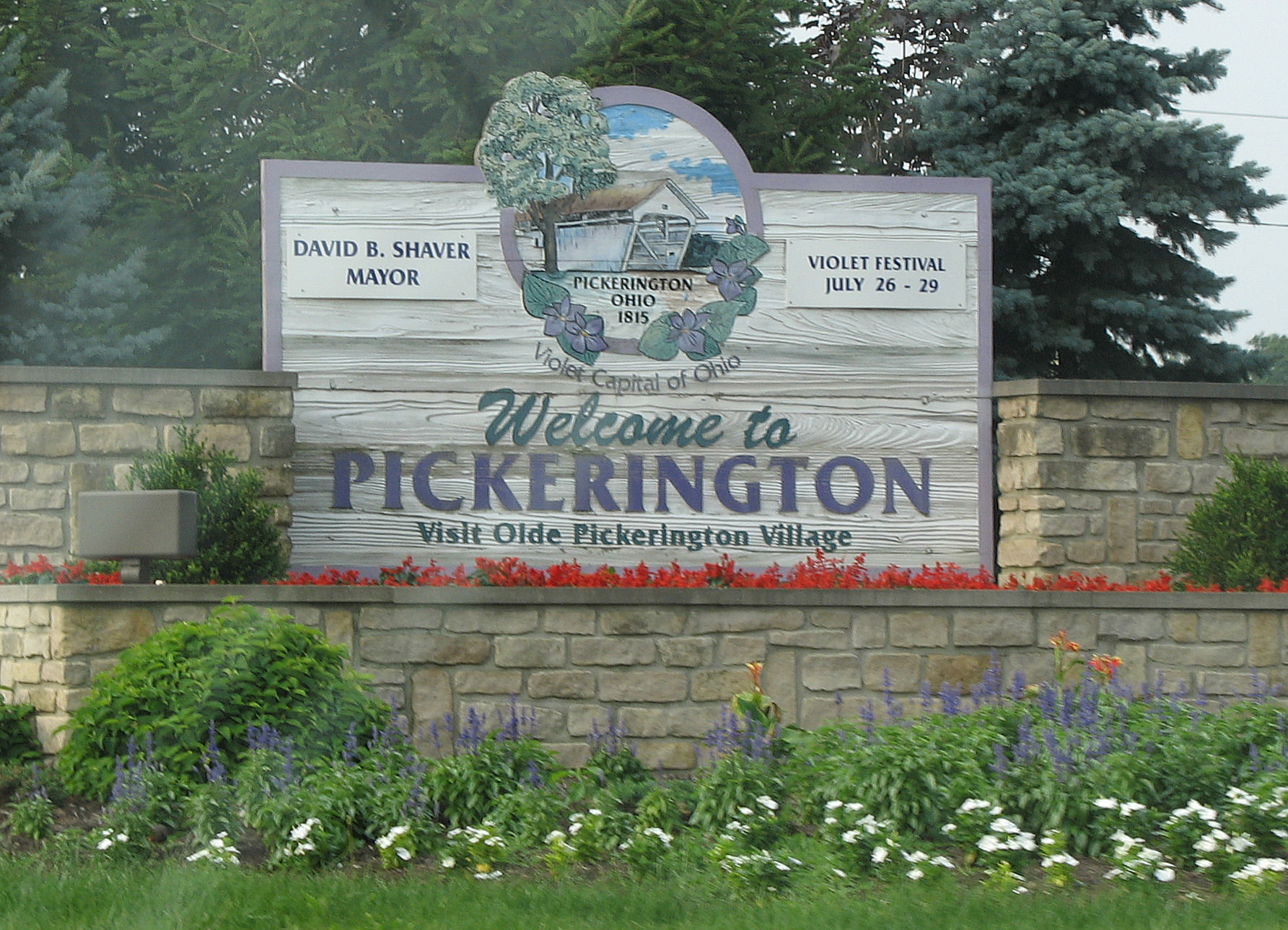 Fairfield County Pickerington Ohio 03:30, 8 August 2006 (UTC)